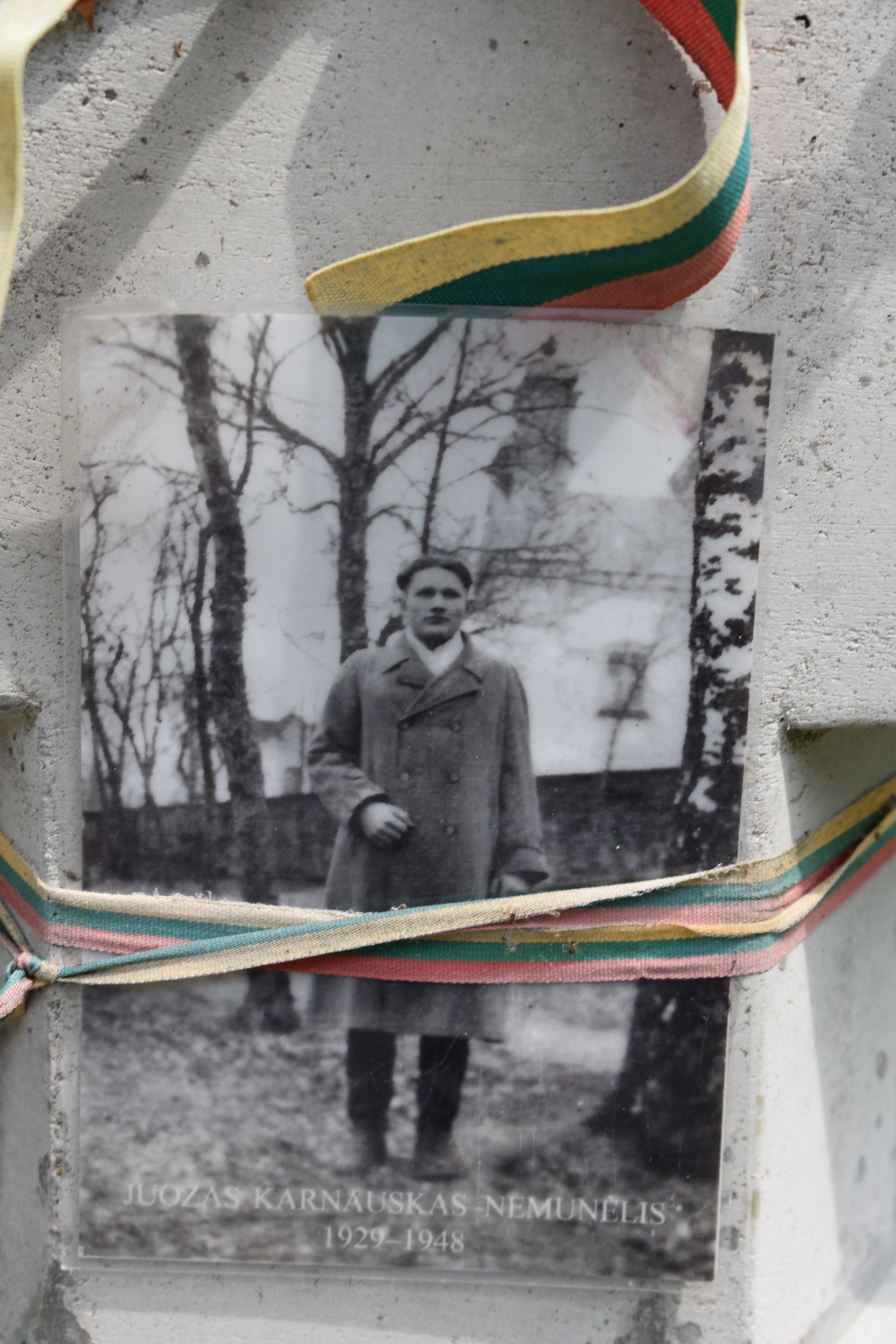 A monument to partisan J.Karnauskas-Nemunėlis, who perished in the fight with Soviet occupants in Druskininkai in 1948